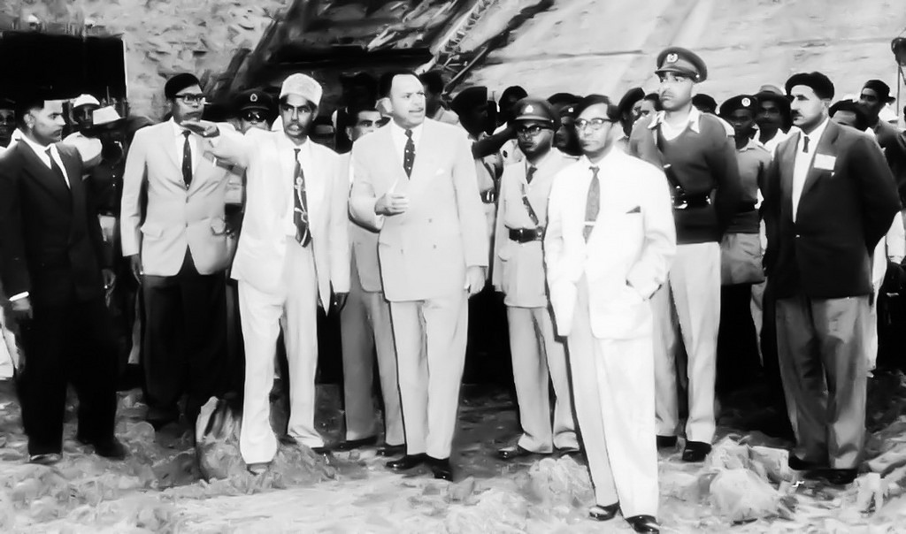 President of Pakistan Ayub Khan visiting Kaptai dam in East Pakistan